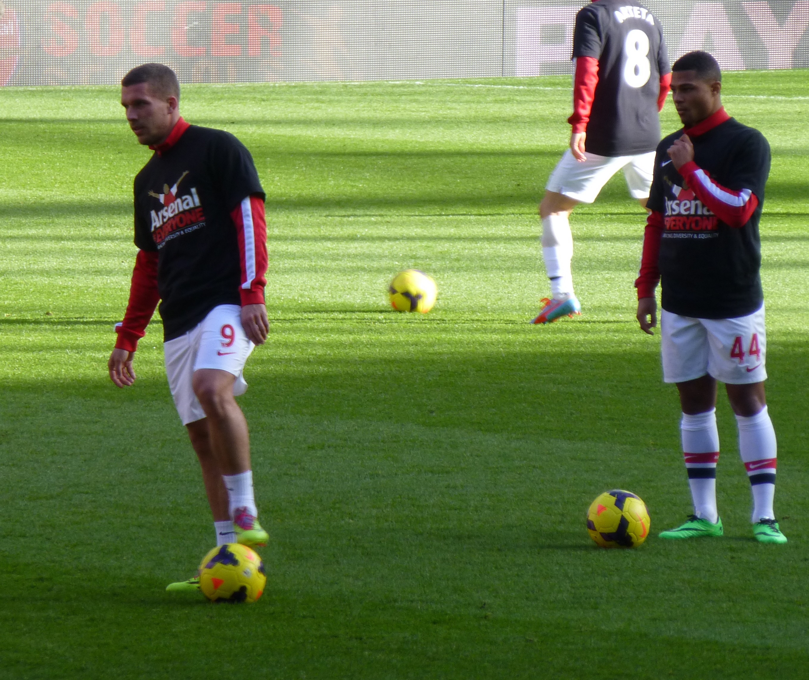 Lukas Podolski (left) and Serge Gnabry warming up for Arsenal before their Premier League match against Sunderland on 22 February 2014.